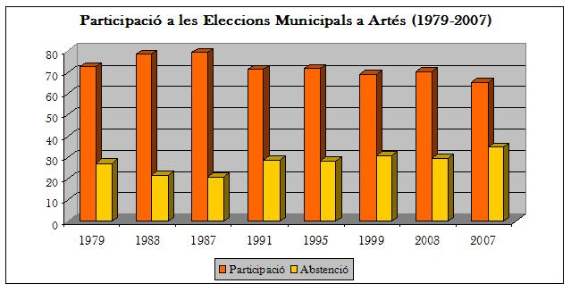 Participation in the municipal elections in Artés (1979-2007).